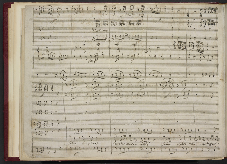 A handwritten page from the manuscript score of Salve regina, written in the author's own hand. Held and digitised by the British Library.